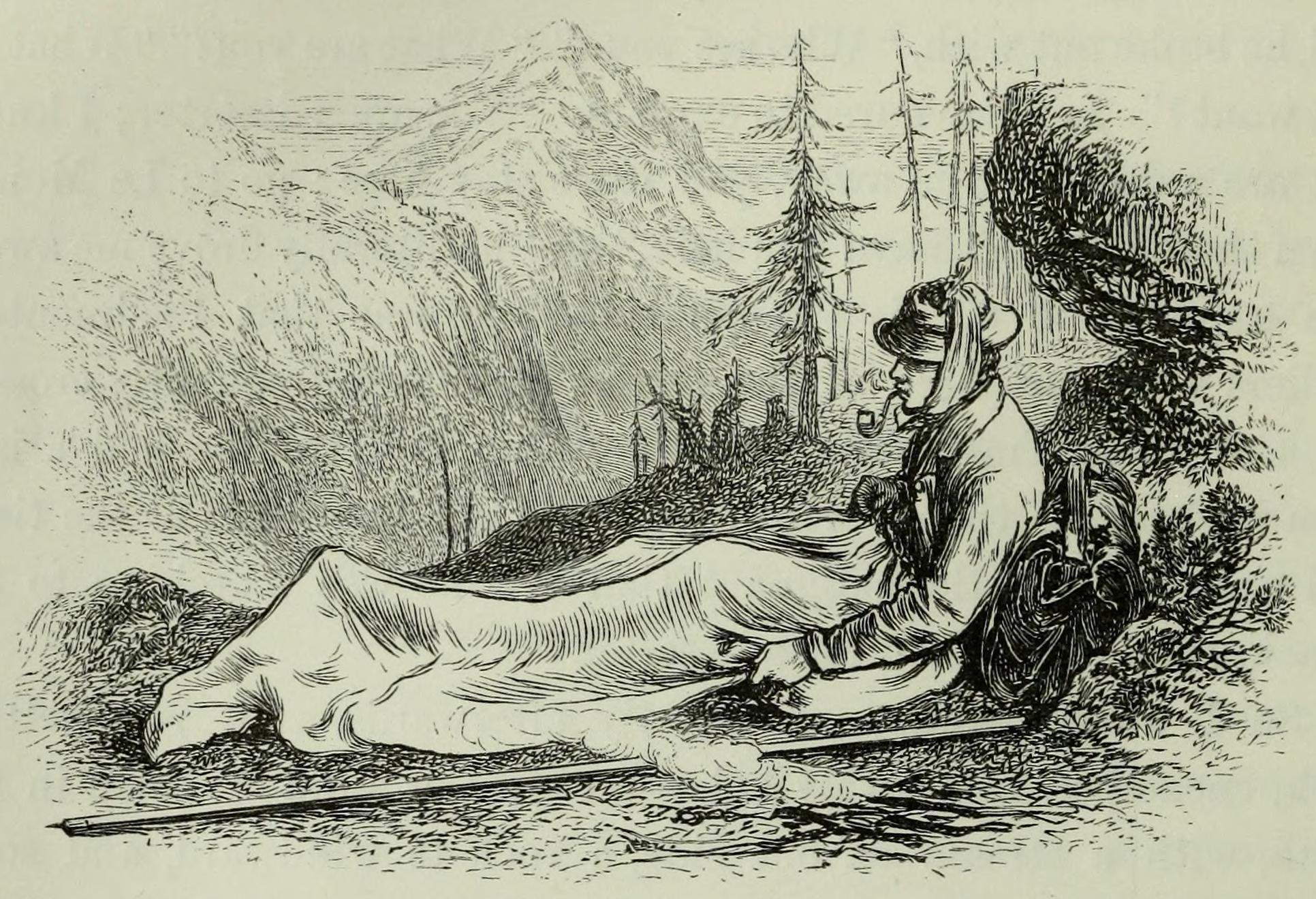 Image on page 70 of Scrambles amongst the Alps